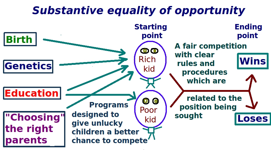 The "substantive" conception of equality of opportunity, in contrast to the "formal" conception, focuses on fairness before a competition begins by trying to help disadvantaged persons have a better chance at the upcoming competition. Examples include "affirmative action" programs, educational assistance and other ways to help applicants disadvantaged by circumstances beyond their control be more "equal" at the starting point.